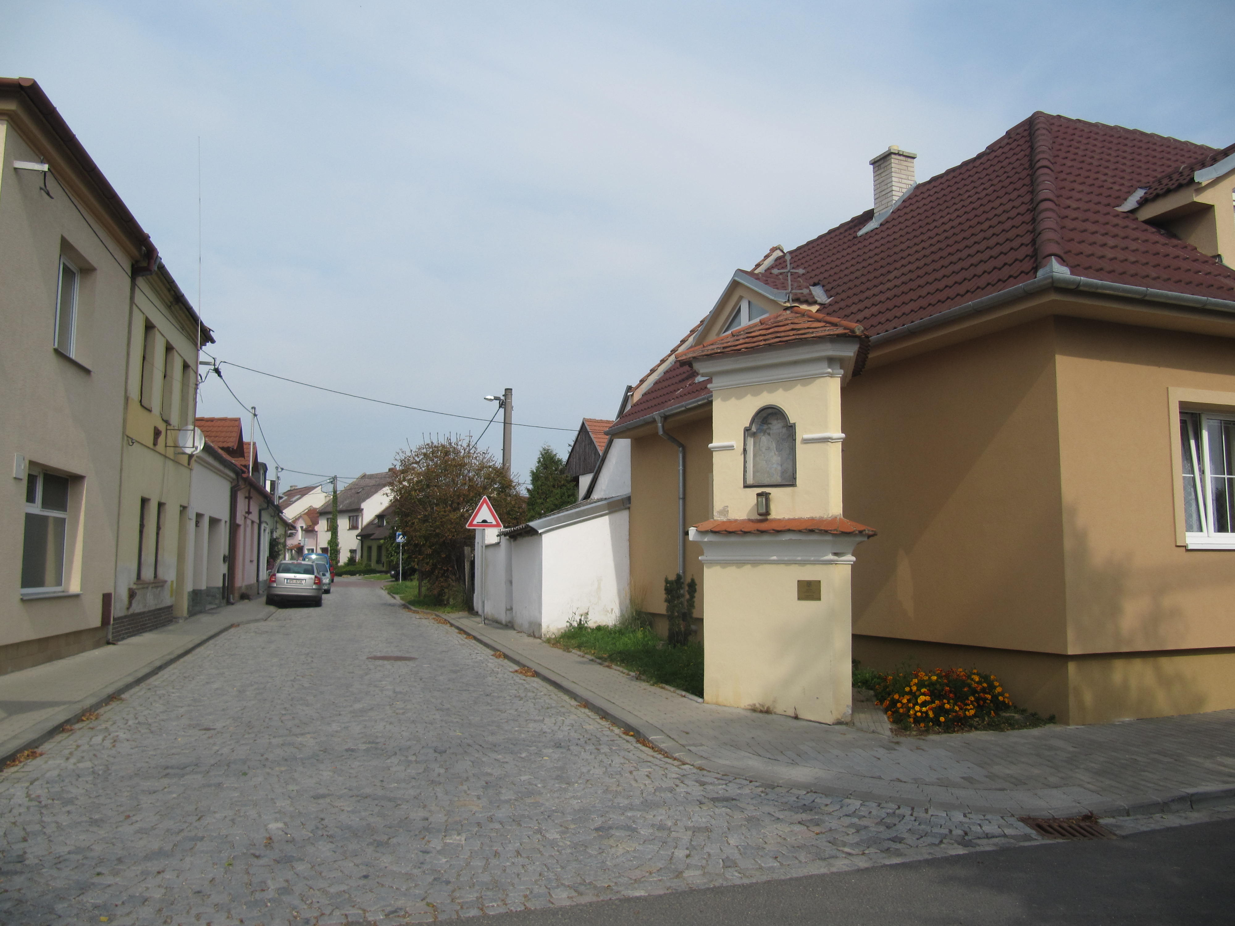 Uherské Hradiště, part Rybárny, Czech Republic. Devotional pillar from 18-th century and a typical alley.